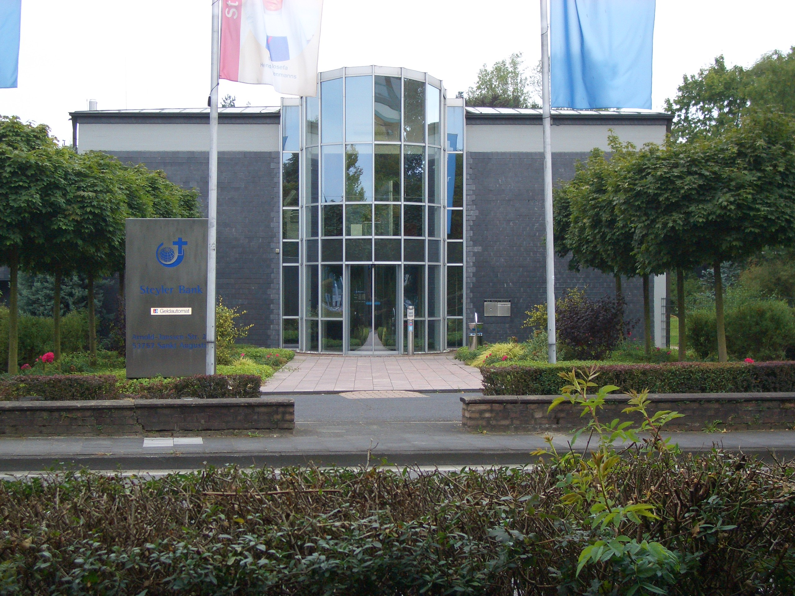 Photo of the building of Steyler Bank in Sankt Augustin, Germany, picture taken at 21st September 2008.